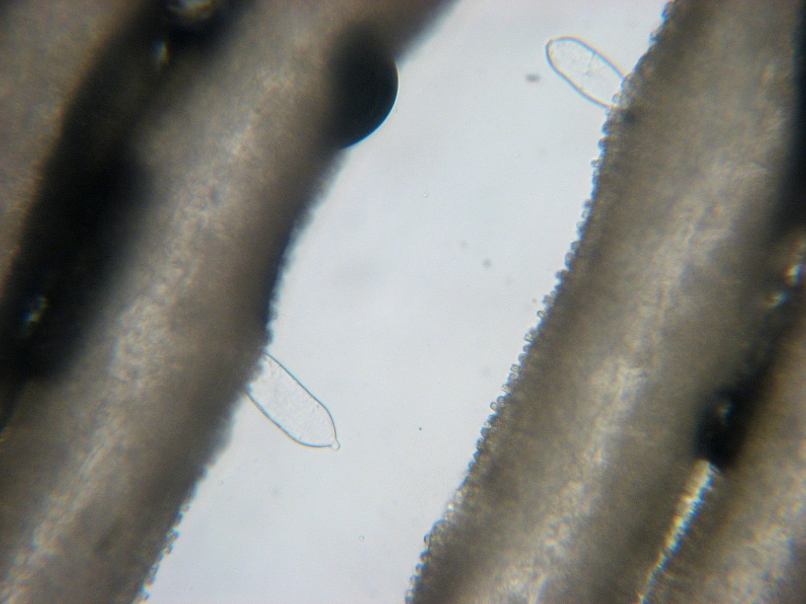 Coprinopsis atramentaria ((Bul.) Redhead, Vilgalys & Moncalvo) Location: Mountain View, Santa Clara Co., California, USA Notes: Pleurocystidia is very useful to keep the gills far enough apart.